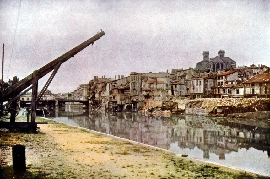 Verdun